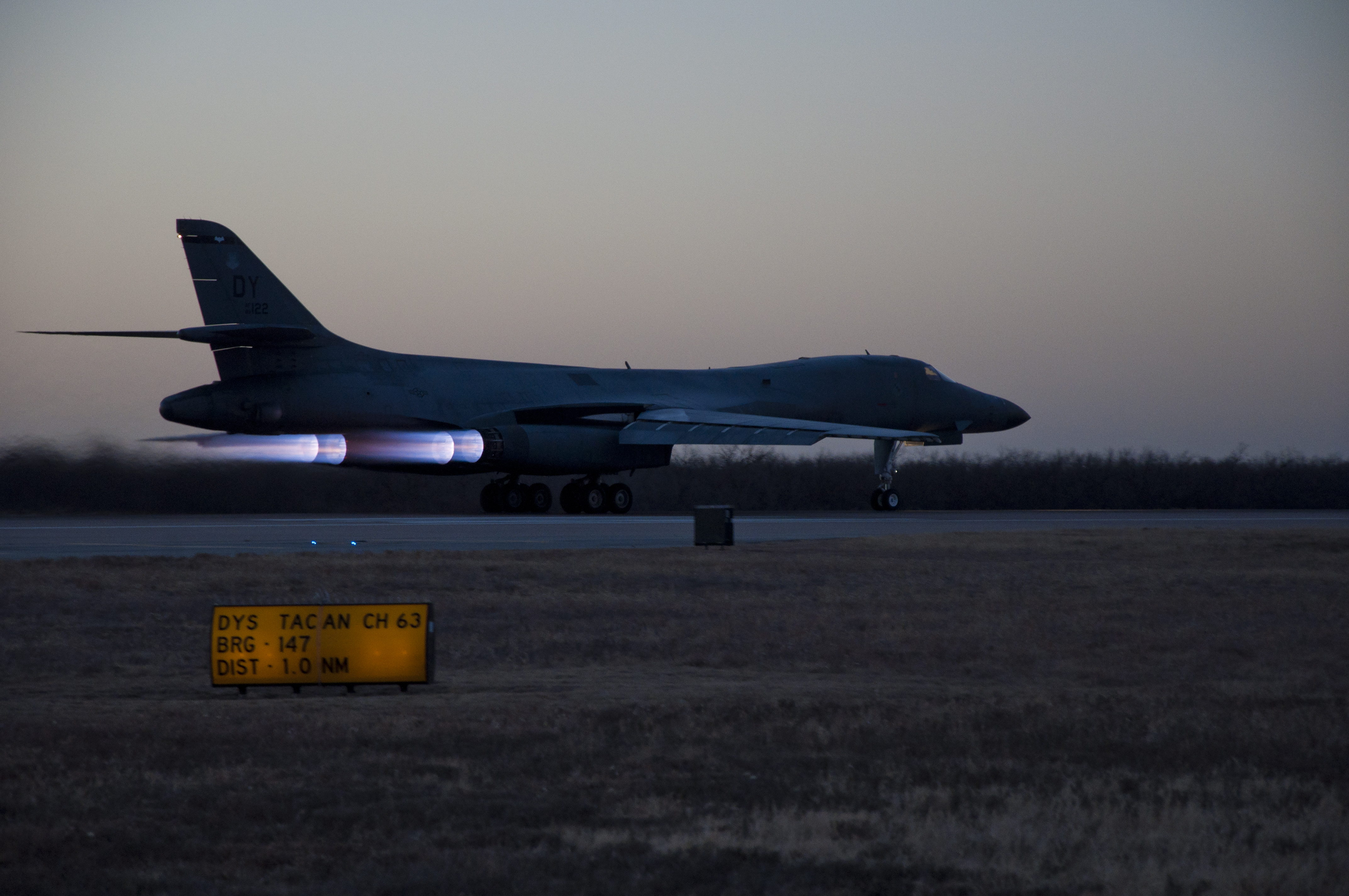 The first newly upgraded operational B1-B Lancer prepares to take flight Jan. 21, 2014, at Dyess Air Force Base, Texas. The B-1B Lancer was recently upgraded with a new Integrated Battle Station. The IBS is a combination of three different upgrades, which include a Fully Integrated Data Link, a Vertical Situation Display upgrade, and a Central Integrated System upgrade. Developmental testing was conducted at Edwards AFB, Calif. and the 337th Test and Evaluation Squadron will now began operational testing at Dyess. (U.S. Air Force photo by Staff Sgt. Richard Ebensberger/Released)